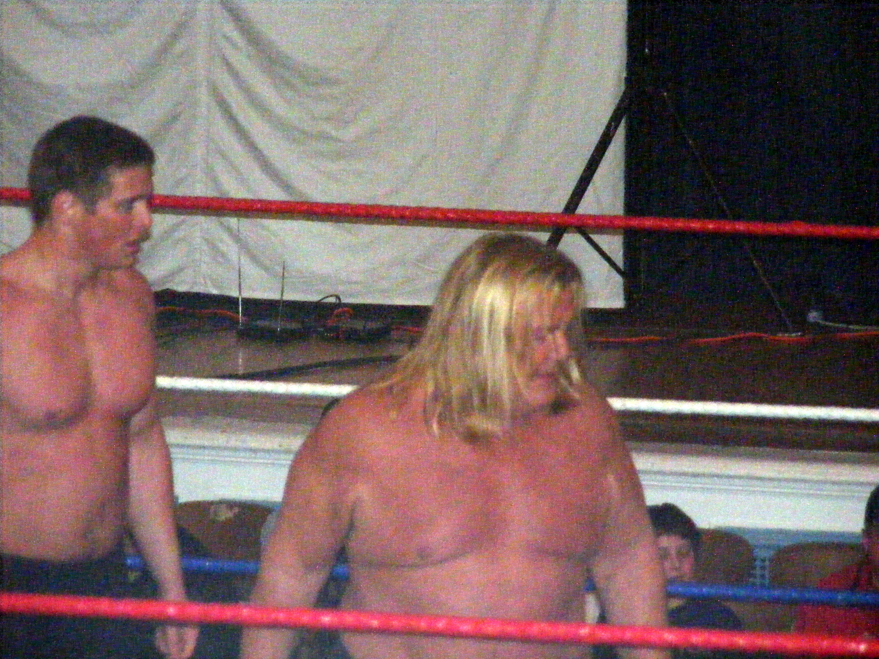 Wrestlers Valentine & Flair